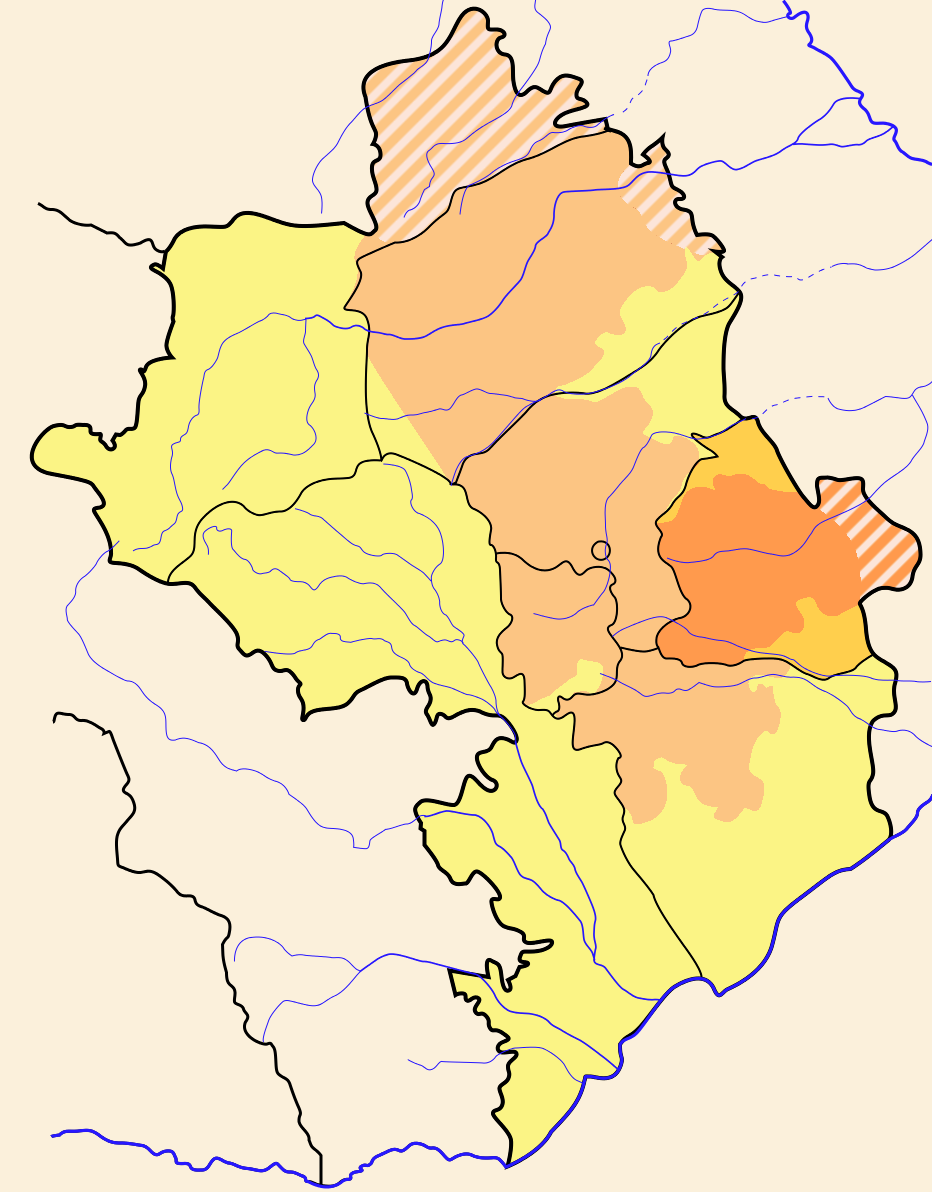 Rayon of Martuni in NKR